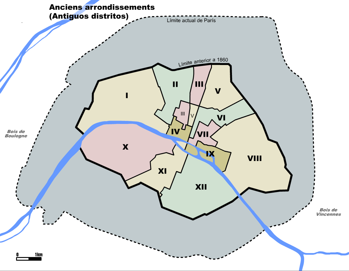 Former districts of Paris and comparison with existing city limits